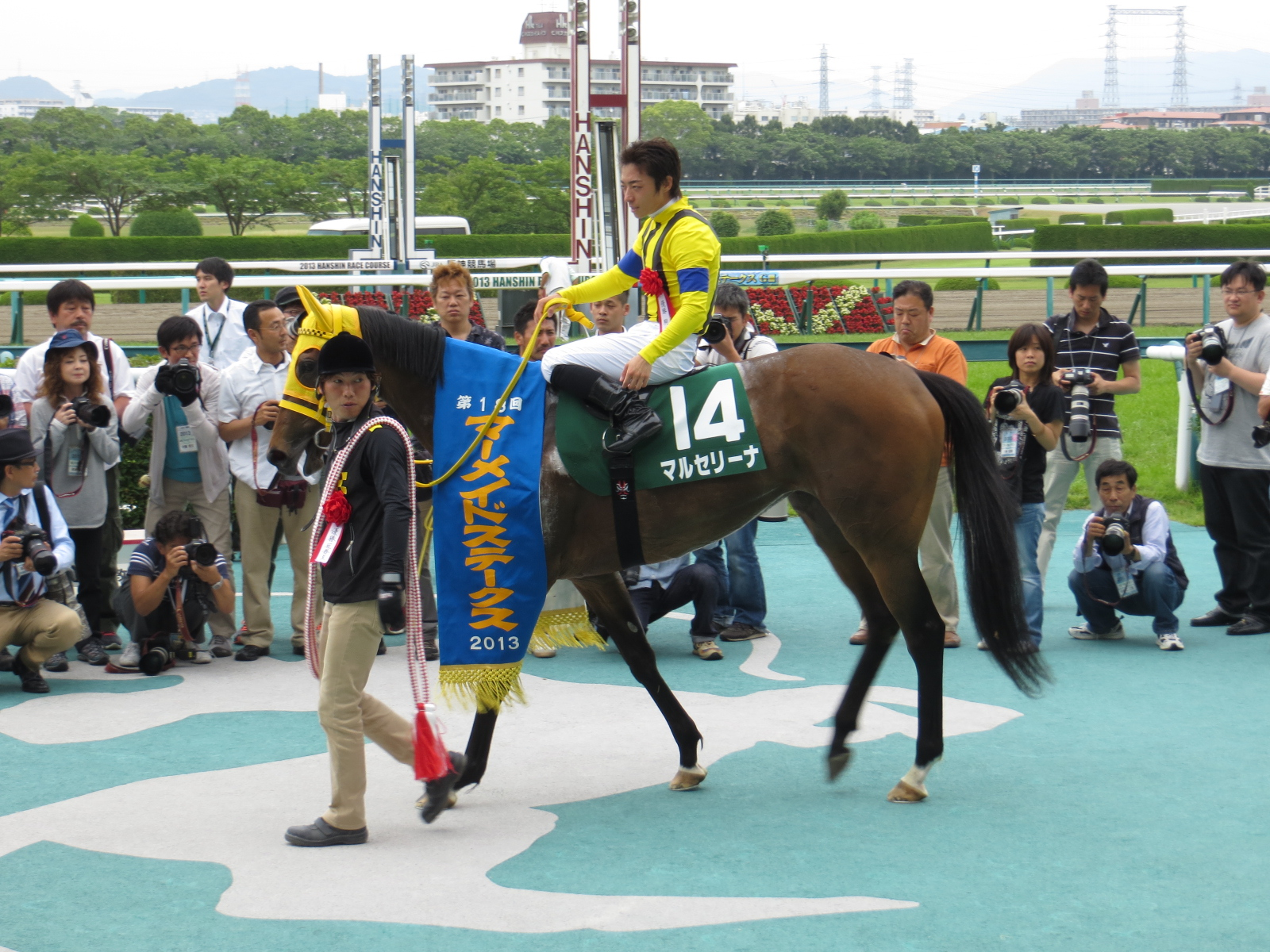 Marcellina (Racehorse of Japan).